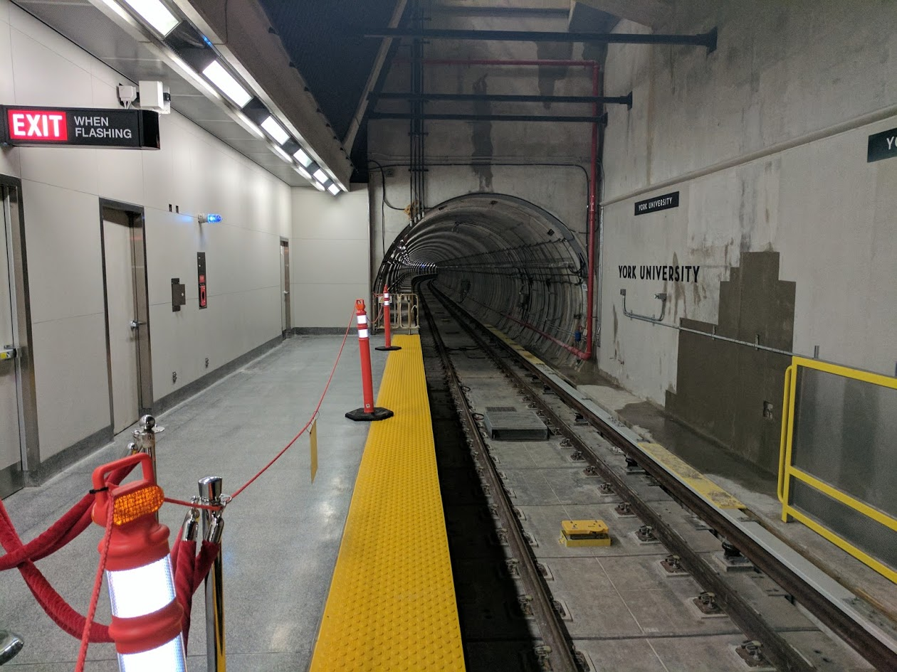 The end of the subway platform at the yet to be open York University station. Picture taken during the 2017 Doors Open Toronto event on May 27, 2017